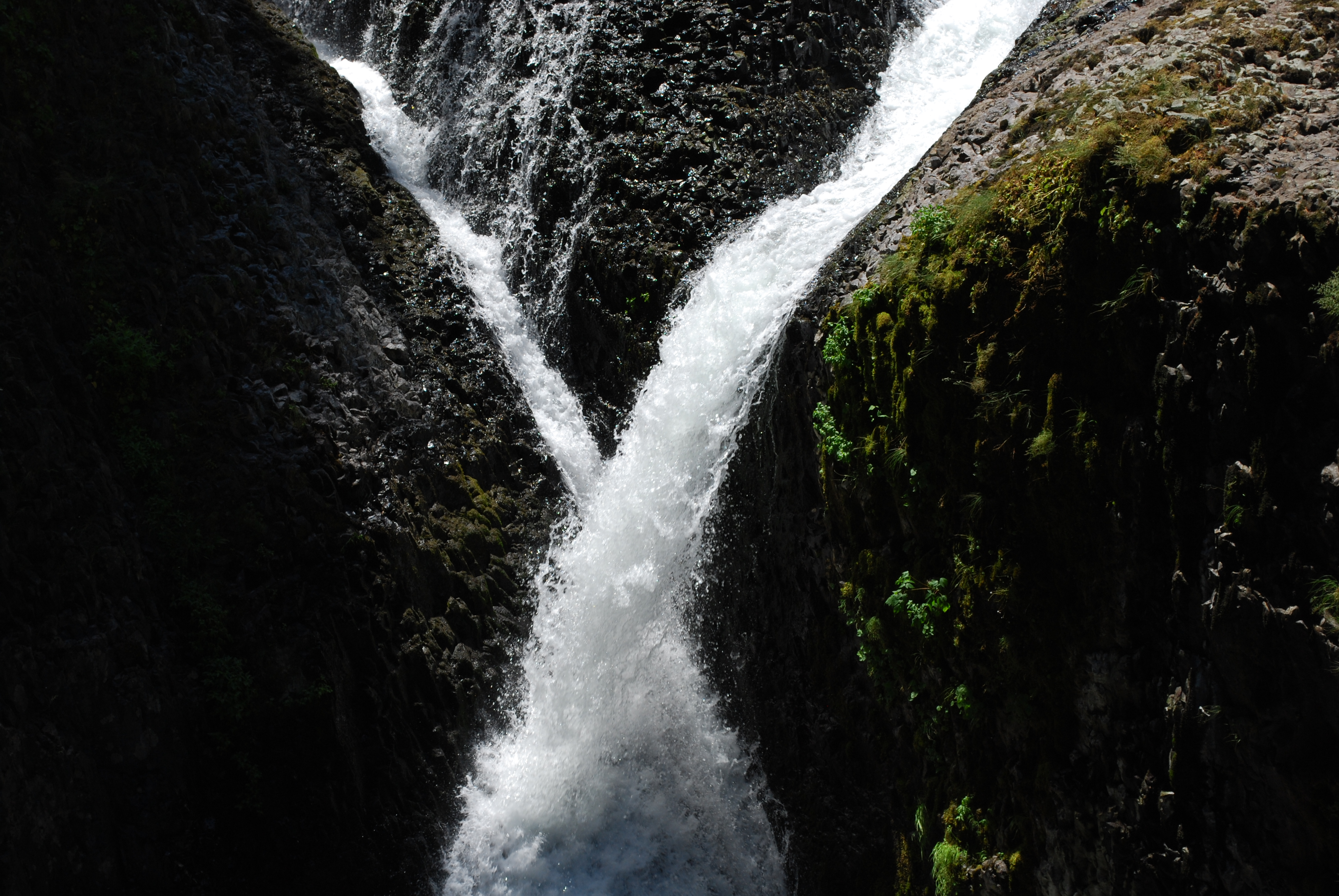 Twister Falls, a waterfall in Hood River County, Oregon, in the Columbia River Gorge.